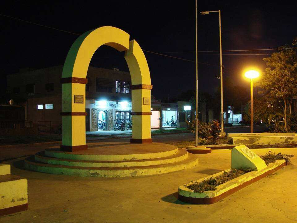 Square at Pirané City, Formosa province, Argentina.